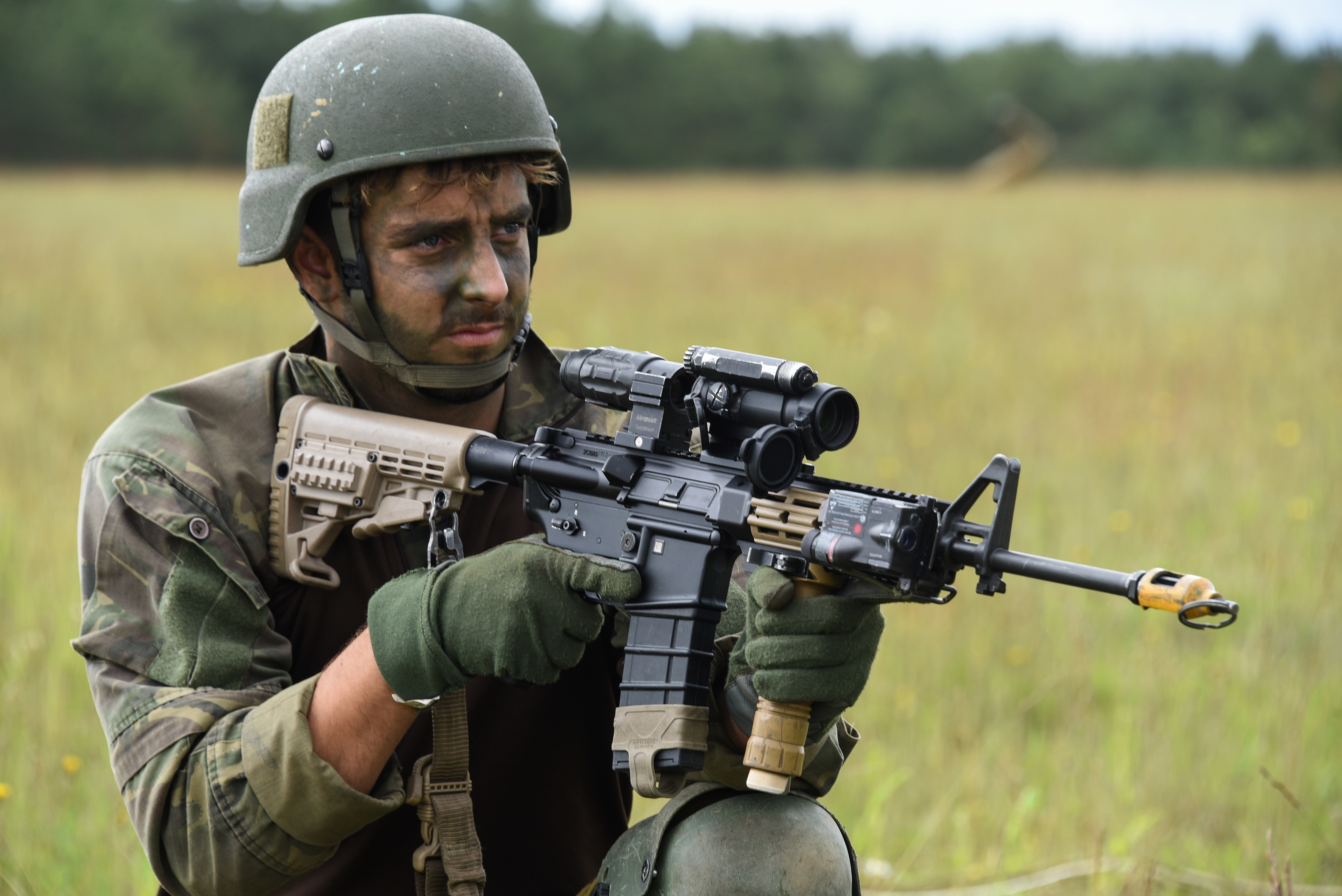 A Dutch Army paratrooper pulls security after jumping into Bunker Drop Zone at Grafenwoehr, Germany, June 15, 2016, during Exercise Swift Response 16. The Dutch soldier is armed with an upgraded variant of the C8 carbine (seen here with yellow blank-firing adapter). Exercise Swift Response is one of the premier military crisis response training events for multi-national airborne forces in the world. The exercise is designed to enhance the readiness of the combat core of the U.S. Global Response Force - currently the 82nd Airborne Division's 1st Brigade Combat Team - to conduct rapid-response, joint-forcible entry and follow-on operations alongside Allied high-readiness forces in Europe. Swift Response 16 includes more than 5,000 Soldiers and Airmen from Belgium, France, Germany, Great Britain, Italy, the Netherlands, Poland, Portugal, Spain and the United States and takes place in Poland and Germany, May 27-June 26, 2016. (U.S. Army photo by Visual Information Specialist Markus Rauchenberger/released) Unit: Training Support Activity Europe DVIDS Tags: Germany; Italy; multinational; 82nd; France; Netherlands; Belgium; Poland; JMTC; Portugal; U.S. Army Europe; soldiers; Spain; U.S. Army; C-130; paratrooper; Airborne; Grafenwoehr Training Area; USAREUR; Global Response Force; Britain; Joint Multinational Training Command; Airborne Division; Great; GTA; U.S. Army in Europe; Markus Rauchenberger; Strong Europe; Swift Response 16; 1/82 Airborne Brigade Combat Team; SR16